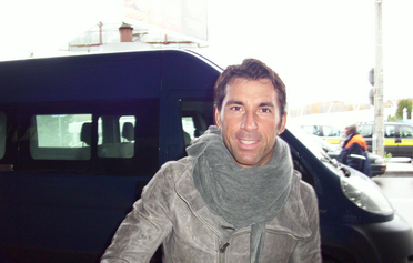 Scooter's band member Michael Simon in Minsk, October 2009